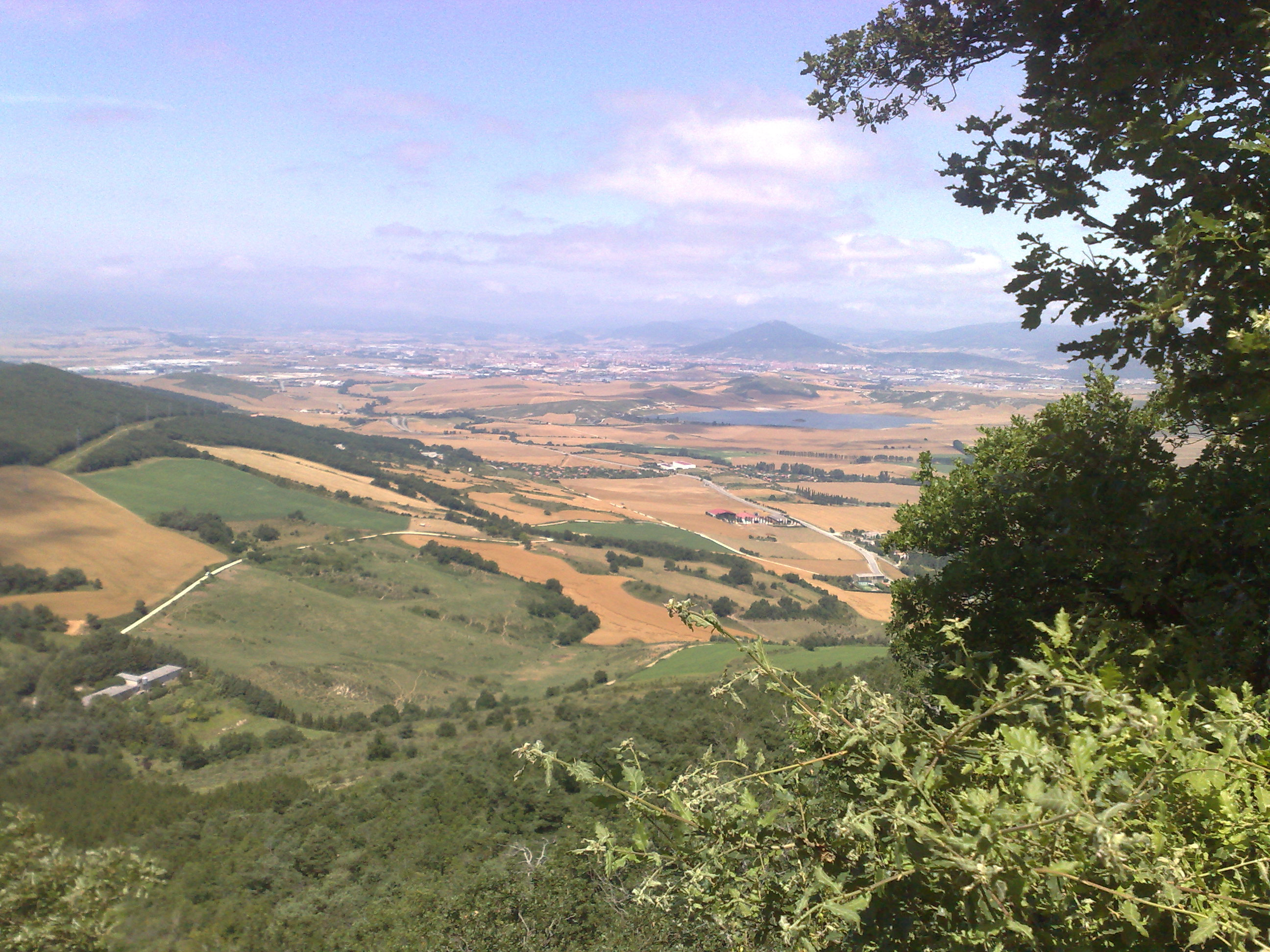 Western Aranguren valley; Zolia (es Zolina) pond can be seen and farther Iruñea-Pamplona. Navarre, Basque Country.